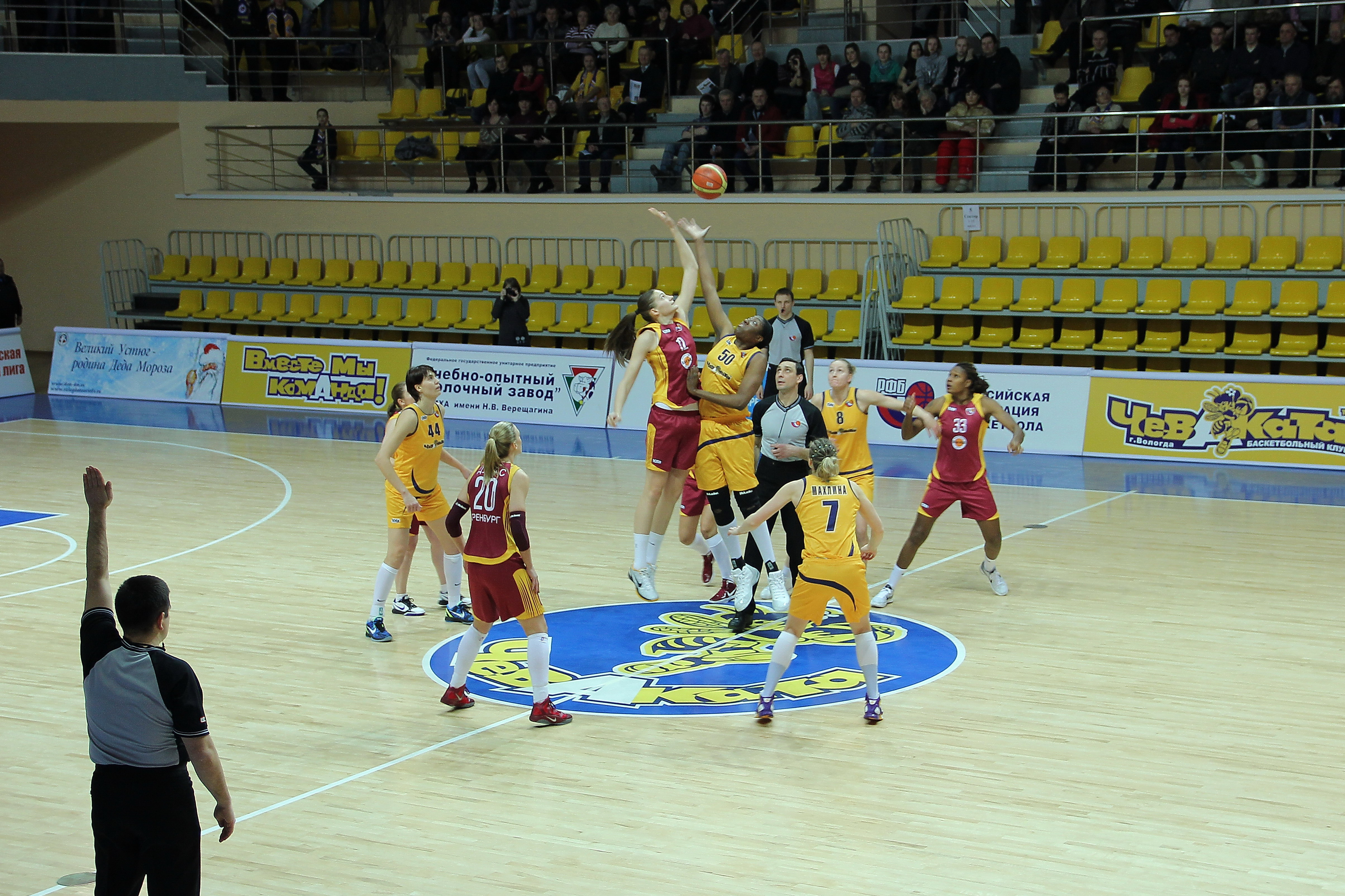 Russia, «Vologda-Chevakata» vs «Nadezhda» (Orenburg)